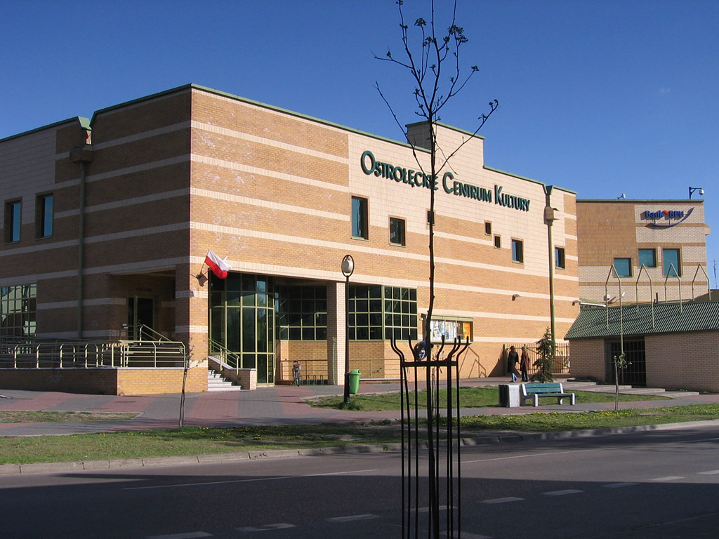 City of Ostroleka (Poland), the culture centre complex.